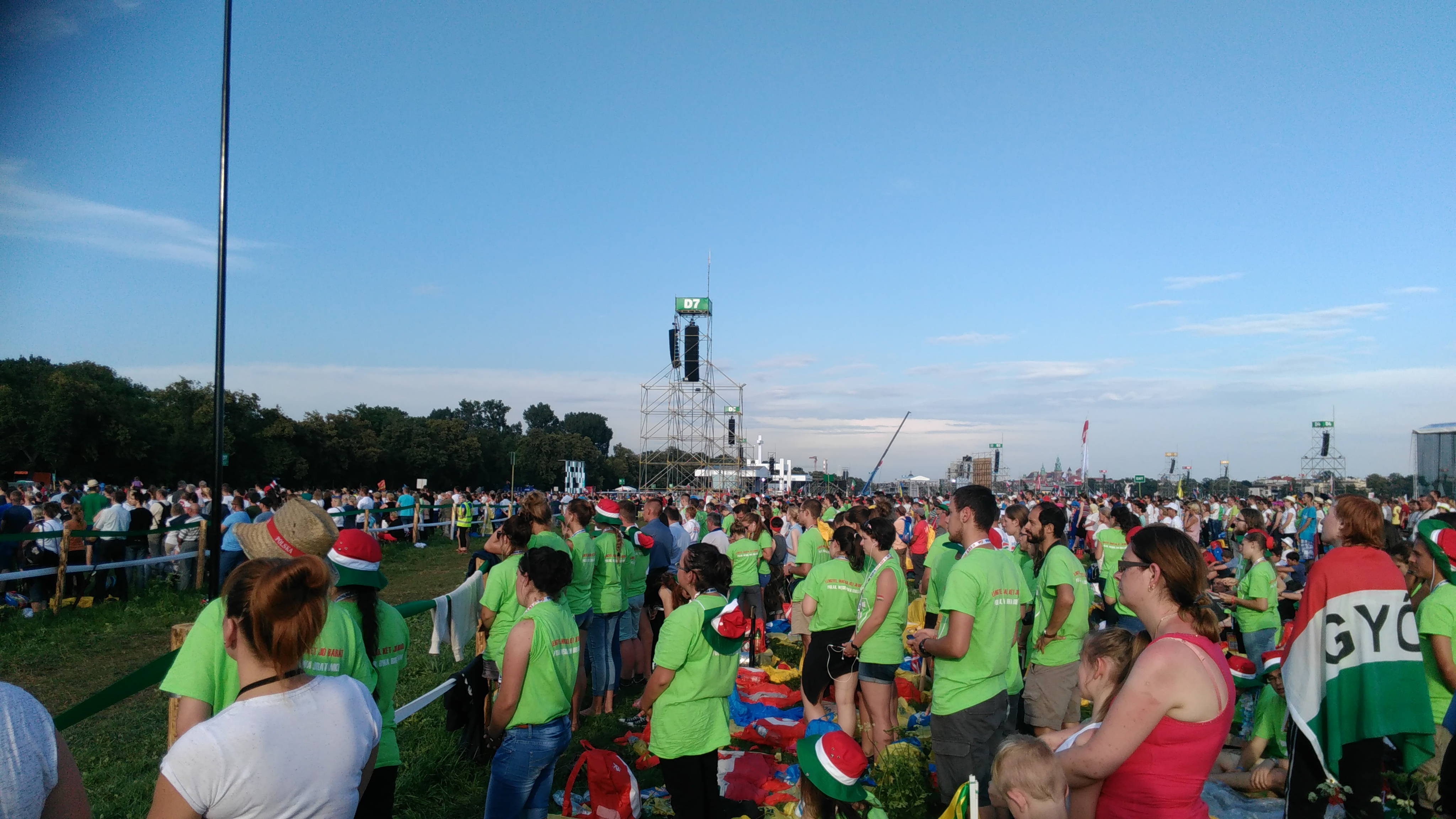 Hungarians on the WYD